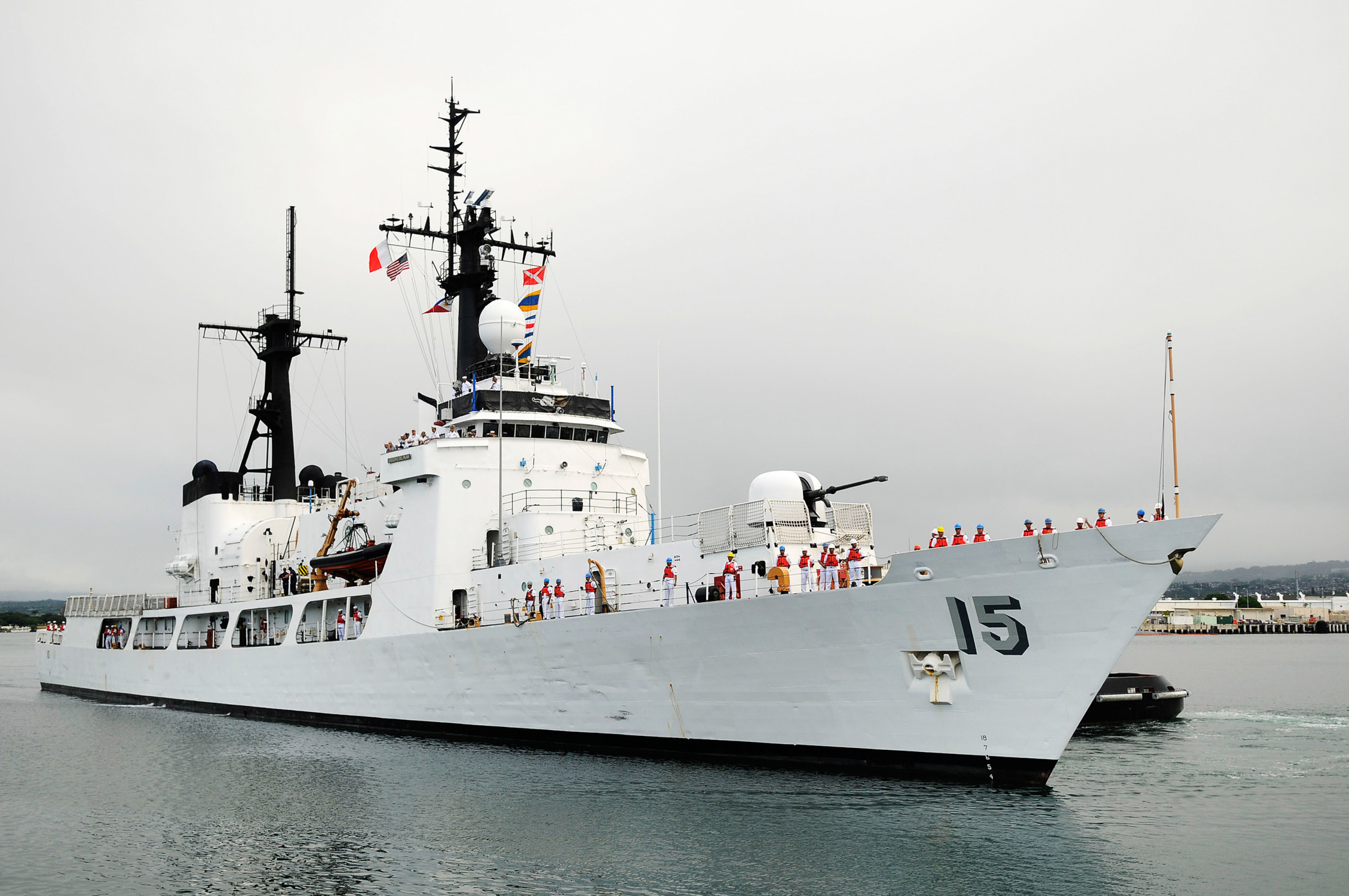 110727-N-WP746-089 Joint Base Pearl Harbor-Hickam (July 27, 2011) - The Philippine Navy's newest ship, BRP Gregorio del Pilar (PF-15), arrives at Joint Base Pearl Harbor-Hickam during a scheduled port visit. The ship, a former U.S. Coast Guard cutter, is on its maiden voyage to the Republic of the Philippines to join the Philippine Navy Fleet. As a multi-mission surface combatant ship, Gregorio del Pilar becomes the first gas-turbine jet engine-powered vessel in the Philippine Navy fleet.